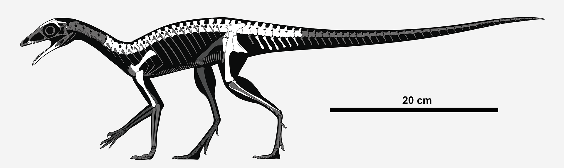 Digital drawing of the known skeletal remains of Ixalerpeton polesinensis. Known elements represented in white and unknown in gray.